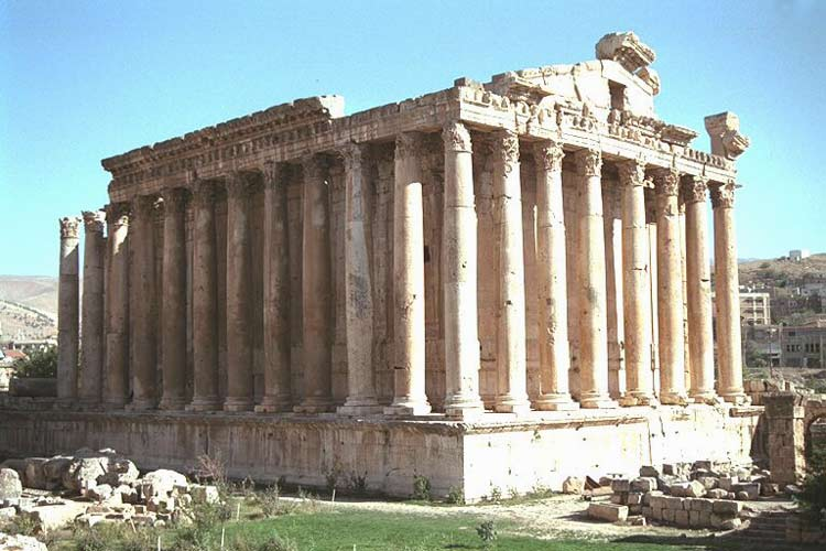 Temple of Bacchus in Baalbek